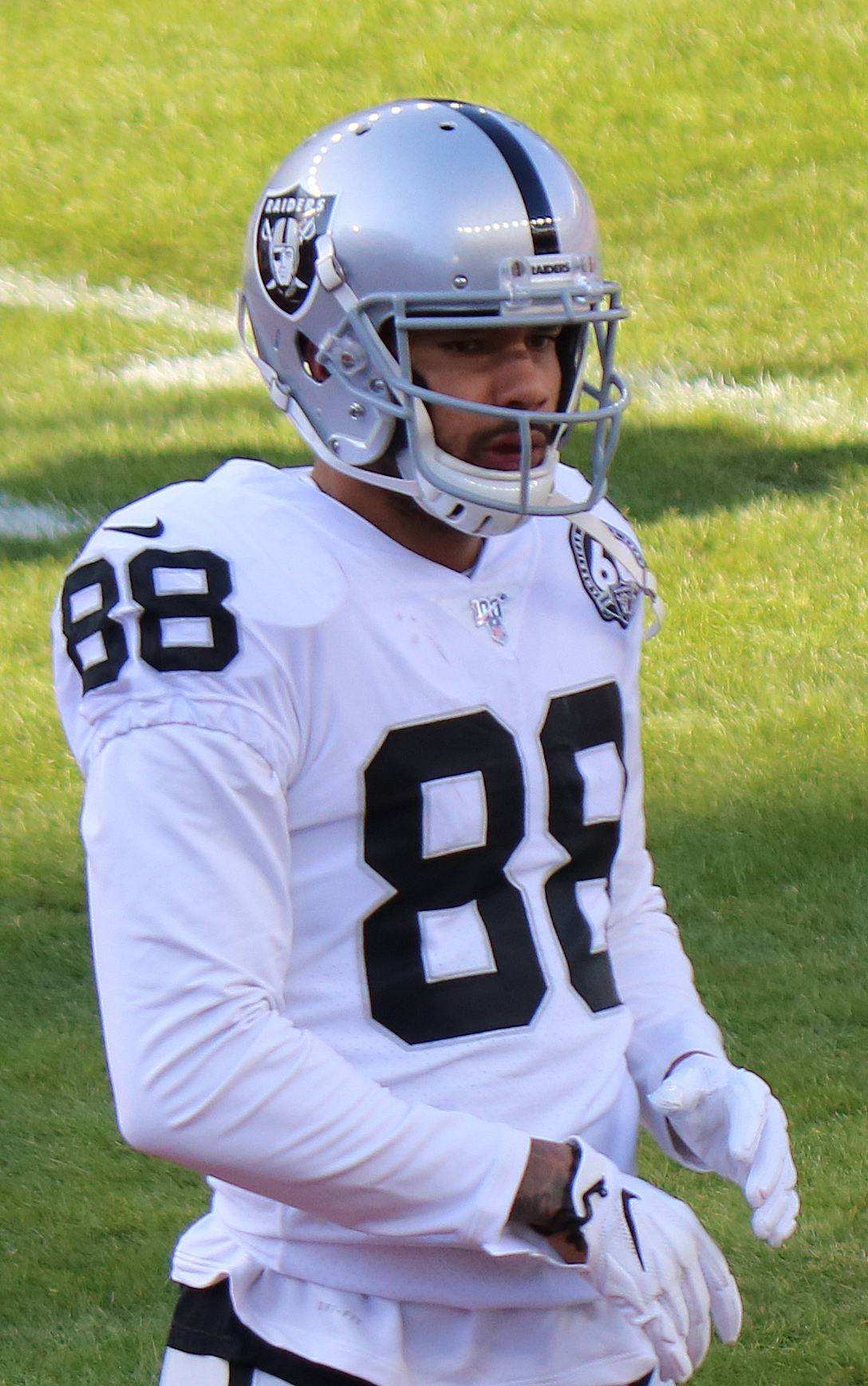 Marcell Ateman, a National Football League player.